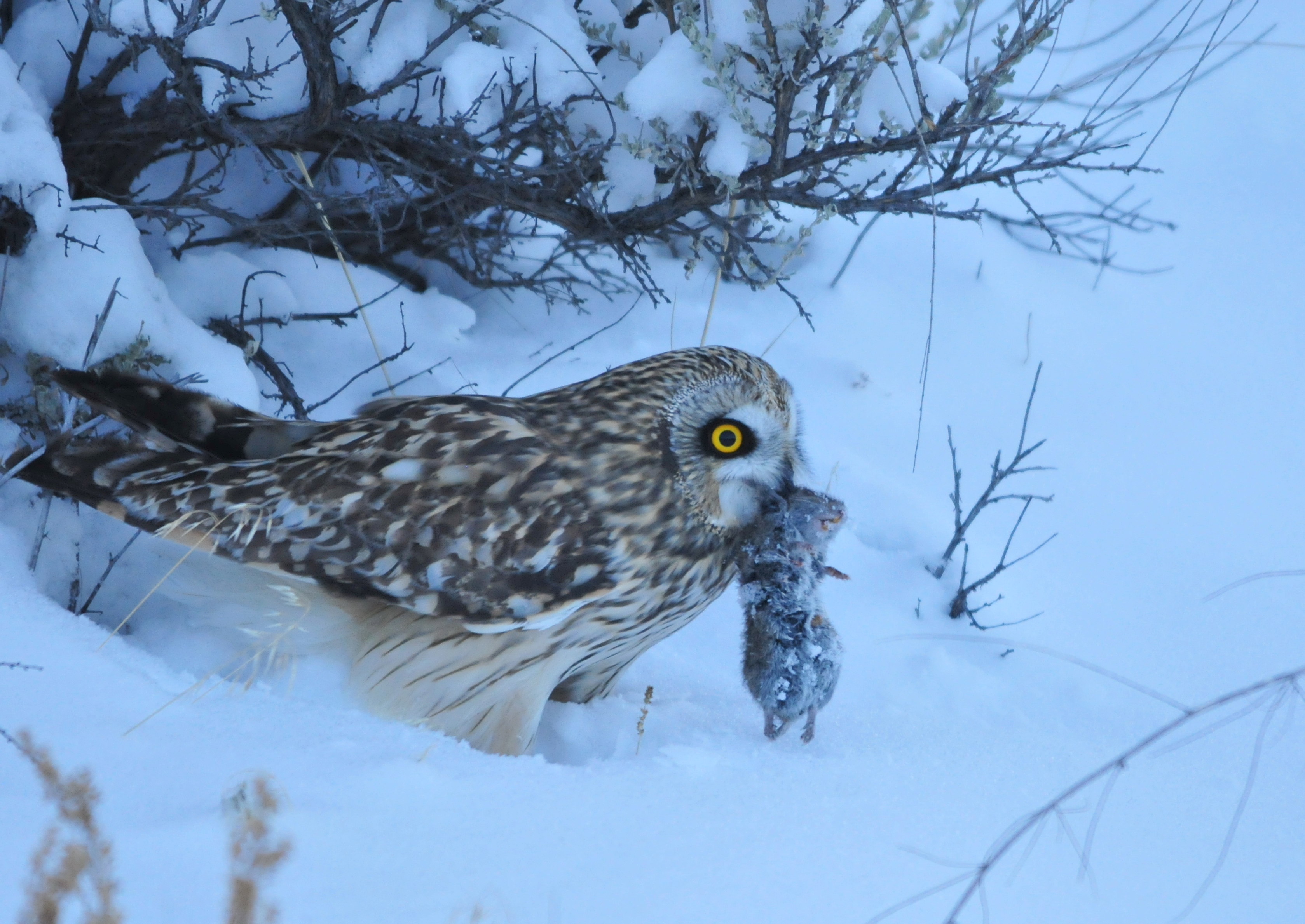 A short-eared owl on Seedskadee NWR has just caught a meadow vole during the last light of dusk. It looks around cautiously for a few minutes to determine if any other predators have noticed its success, before starting to eat. As the temperatures will drop well below zero this night, a full meal of a meadow vole will help it to maintain body condition for another night. Photo: Tom Koerner/USFWS